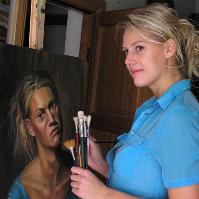 Artist gives permission and everybody can use this picture.